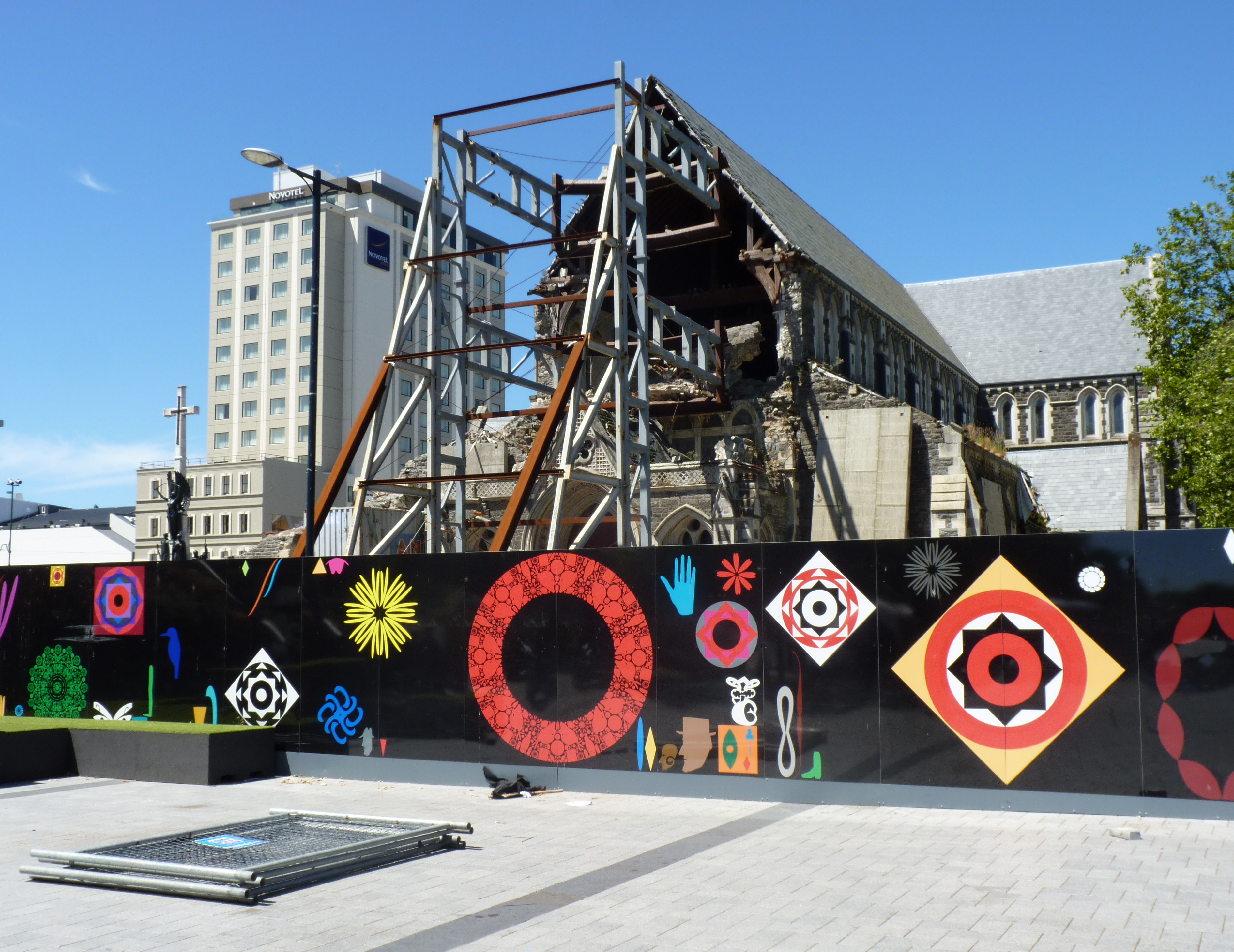 Christchurch Central City, New Zealand